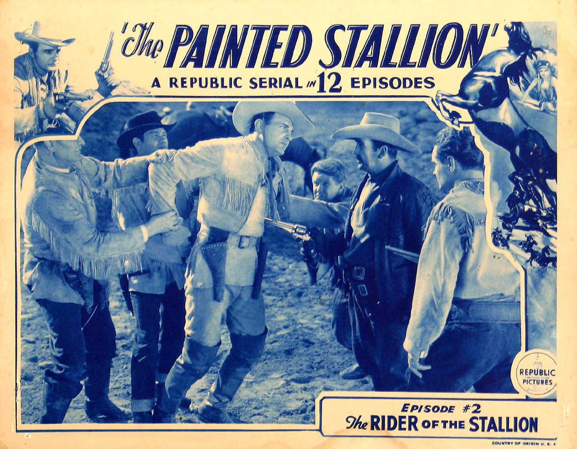 Lobby card for episode 2 of the American western film serial The Painted Stallion (1937). The item has no copyright markings on it as can be seen in the links above. At bottom right is Country of Origin USA.